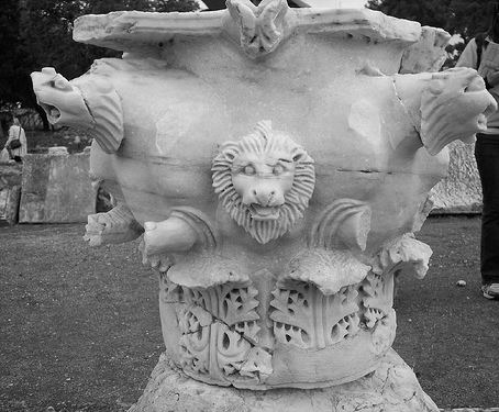 Capital Of Basilica A', Nea Anchialos, Magnesia Greece